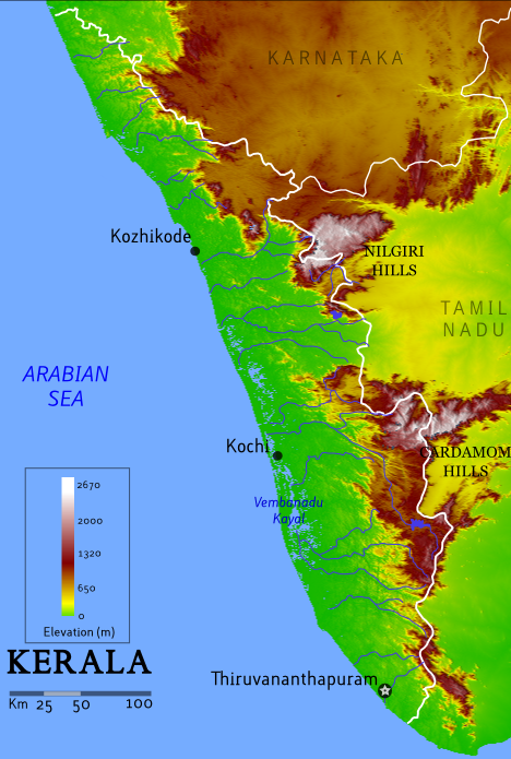 Geographic map for Kerala state, depicting relief and major water bodies